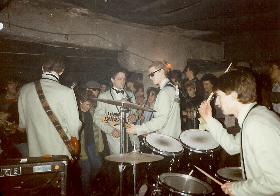 U-Men at the Bat Cave in Seattle, Washington